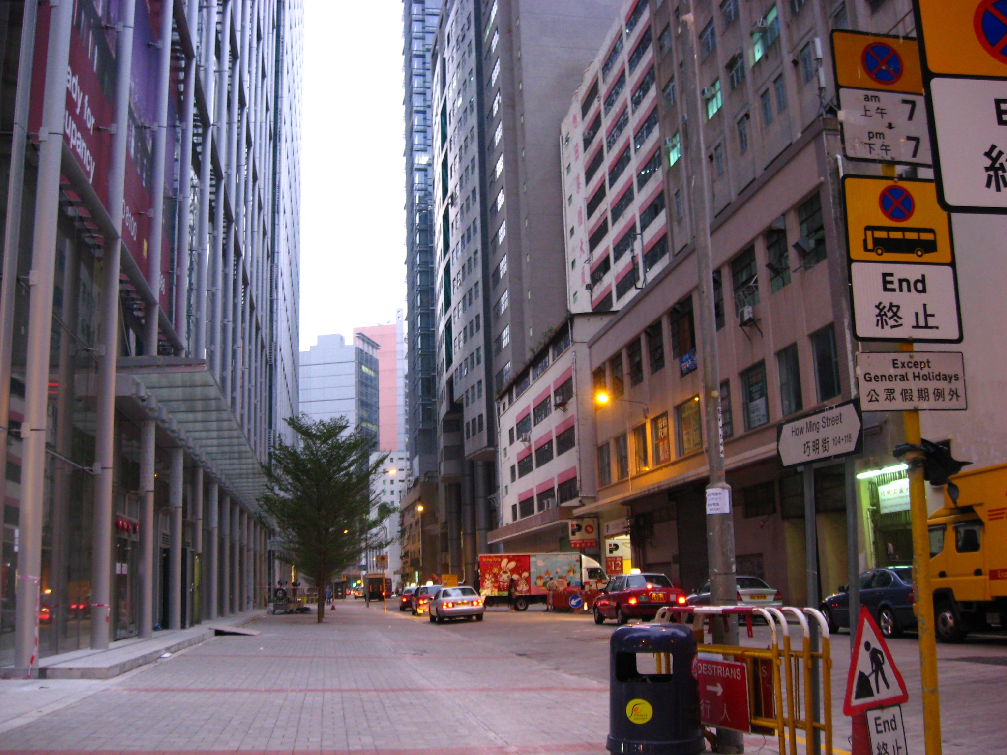 How Ming Street, Hong Kong